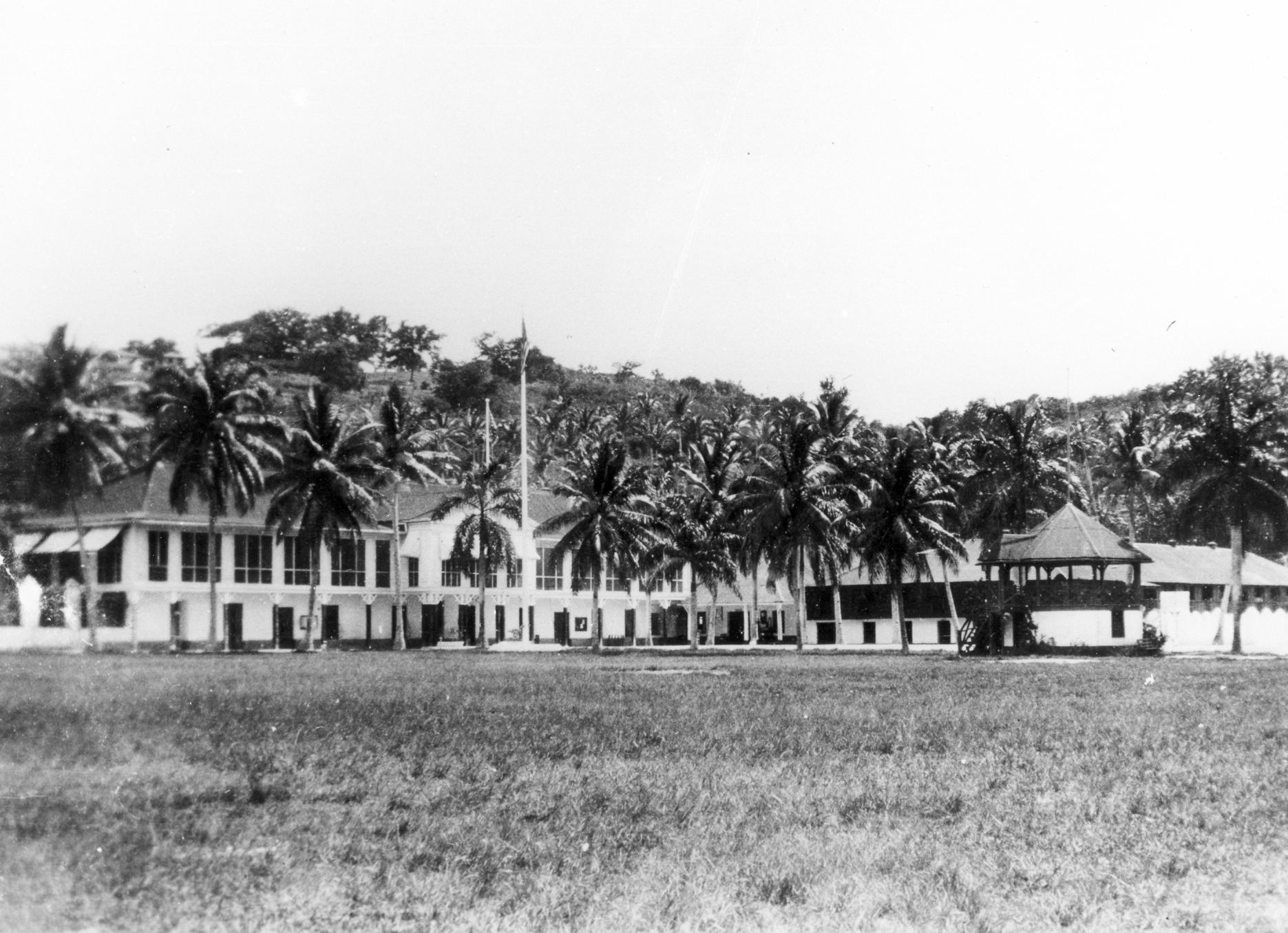 A view of the Governor's Palace across the Plaza de Espana, Guam, before the Second World War.